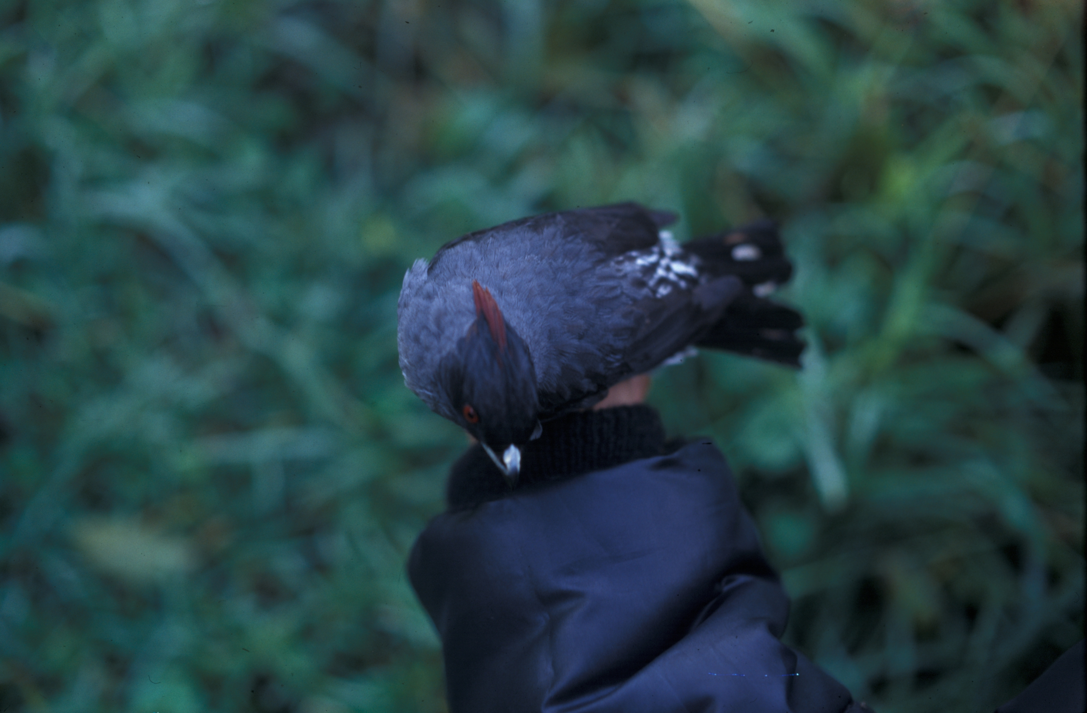 Red-crested Cotinga (Ampelion rubrocristatus) from the NBII Image Gallery. Photographed in Ecuador.